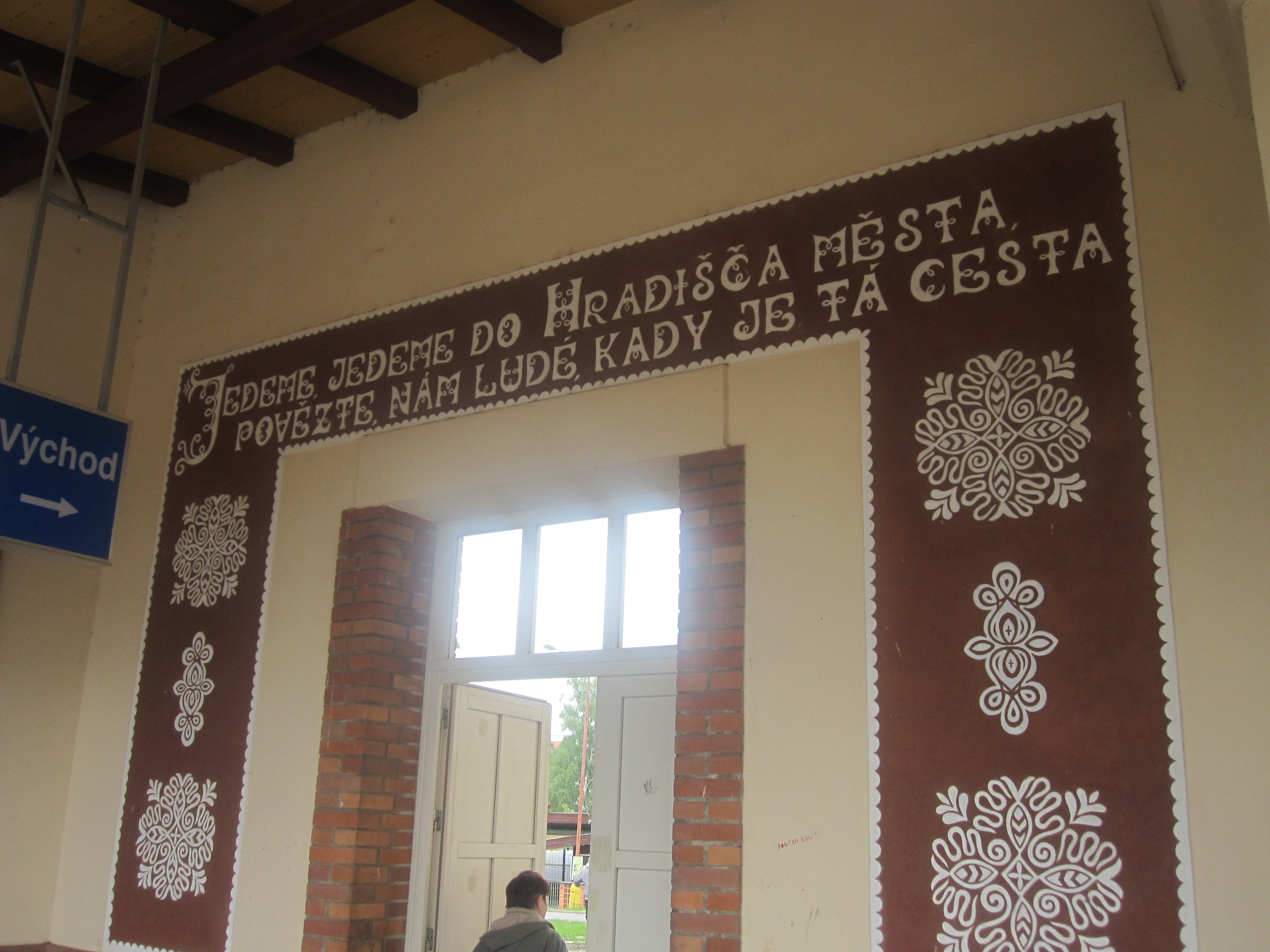 A mural at Uherské Hradiště train station written in an East Moravian dialect